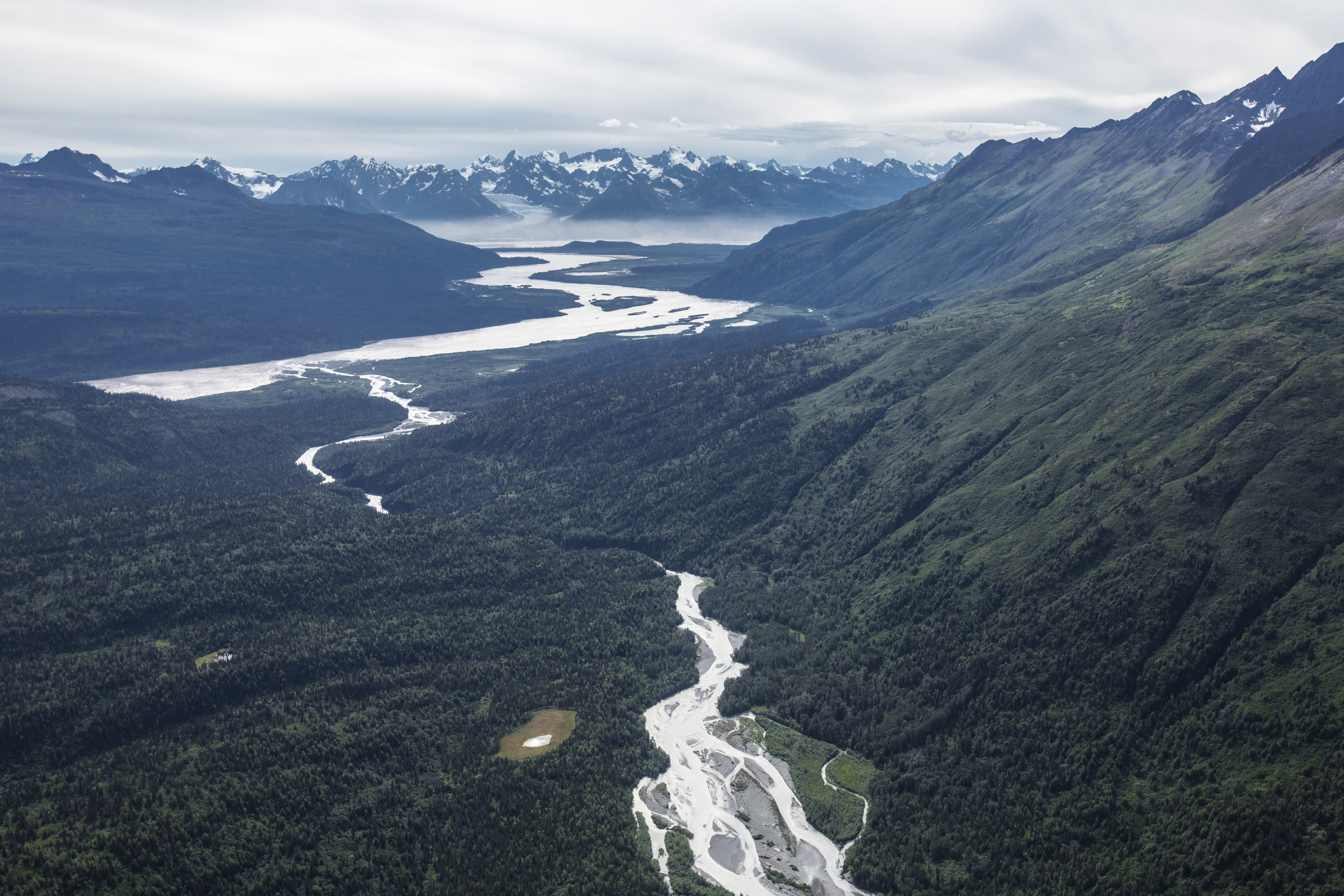 NPS / Jacob W. Frank Flight paths